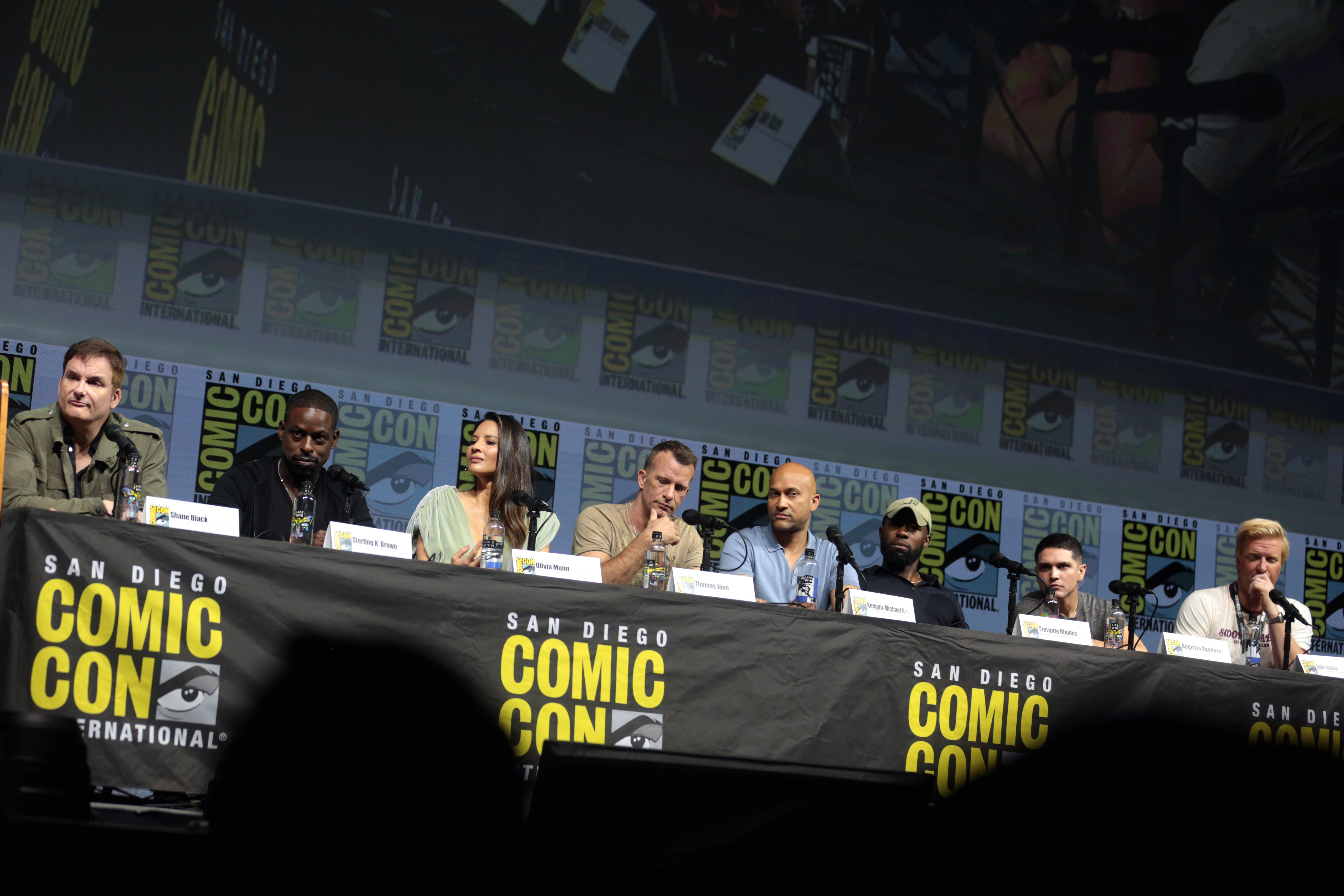 Shane Black, Sterling K. Brown, Olivia Munn, Thomas Jane, Keegan Michael-Key, Trevante Rhodes, Augusto Aguilera and Jake Busey speaking at the 2018 San Diego Comic Con International, for "The Predator", at the San Diego Convention Center in San Diego, California.